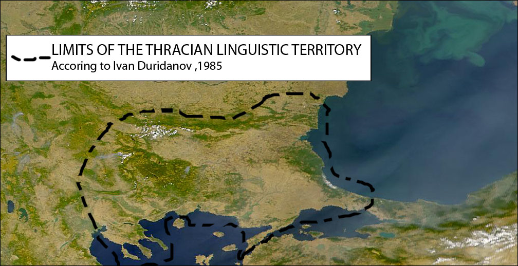 Limits of the Thracian linguistic territory according to Ivan Duridanov,1985 Own work, data from The Language of the Thracians, Ivan Duridanov Blank map,nasa